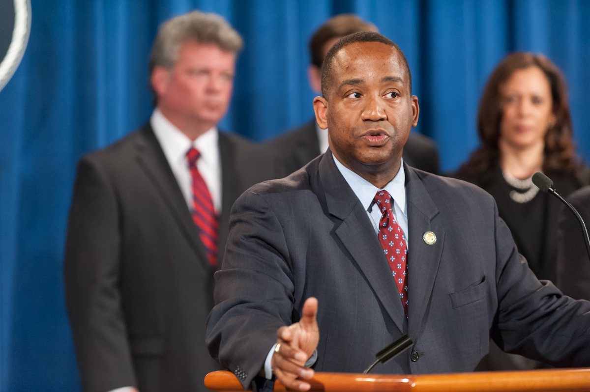 US Attorney for the Central District of California André Birotte Jr.